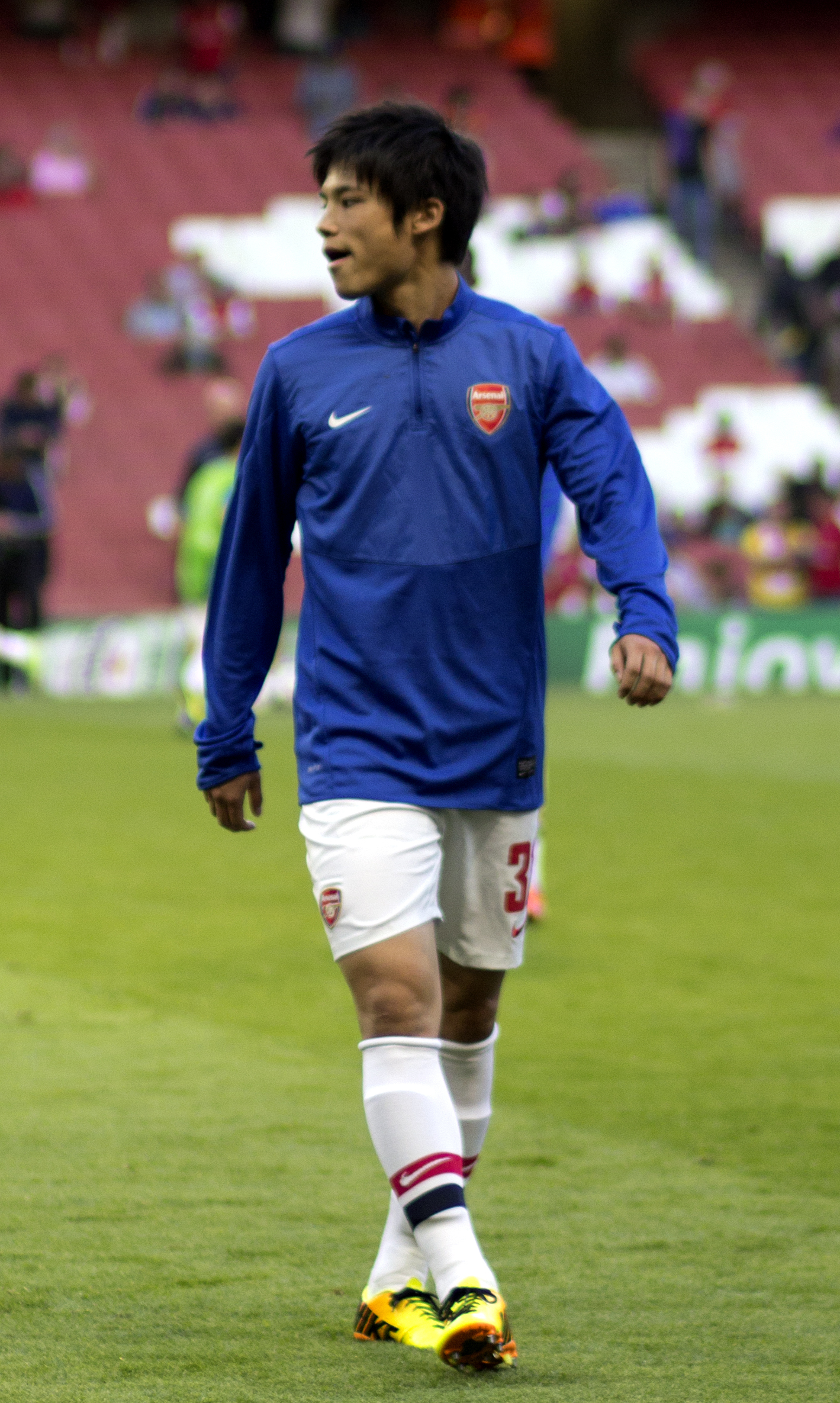 Ryo Miyaichi warming-up before a match for Arsenal.